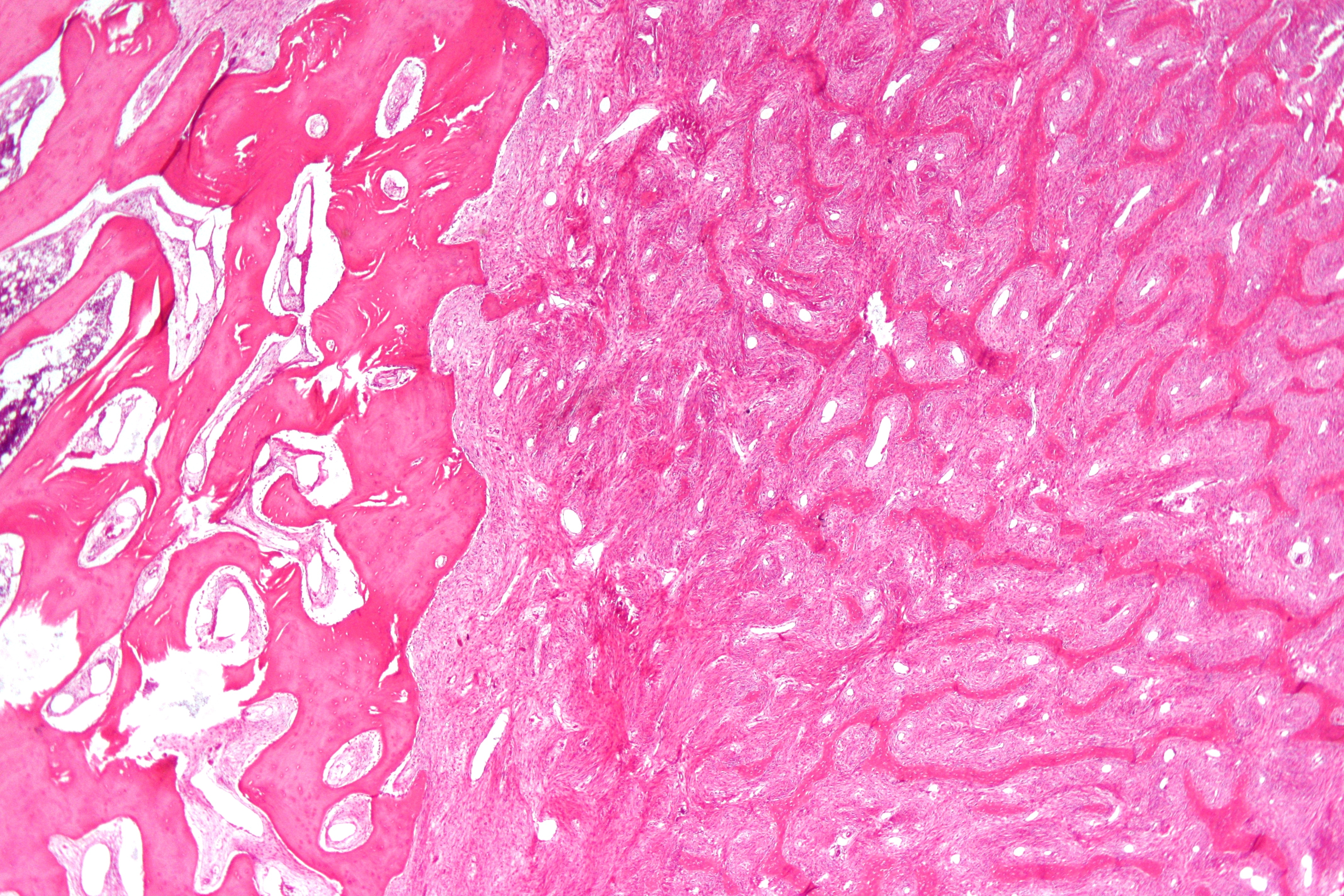 Very low magnification micrograph of fibrous dysplasia. H&E stain. Fibrous dysplasia has been described as having a chinese character-like appearance. It characteristically does not have osteoblastic rimming. Related images Very low mag. Low mag. Low mag. Intermed. mag. High mag. Very high mag.